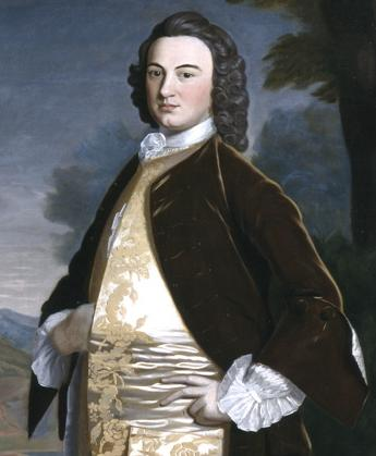 Massachusetts Governor James Bowdoin II. Image has been cropped.